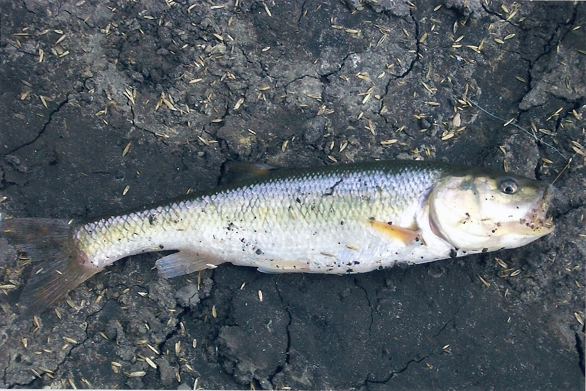 8 inch Creek Chub from Hart Ditch: Semotilus atromaculatus, recognizable by black spot on anterior or dorsal fin. Munster, Indiana